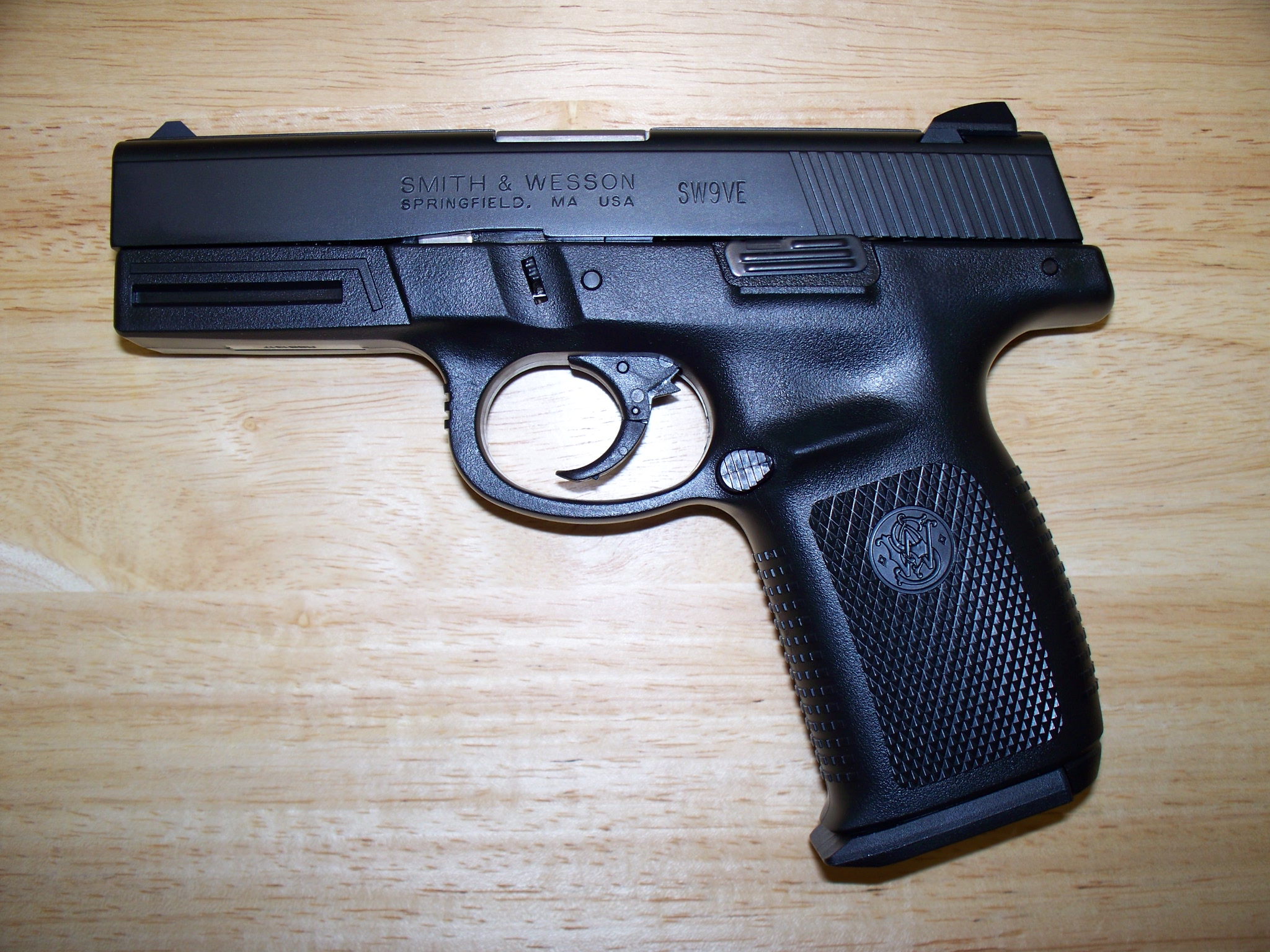 Smith & Wesson Sigma, Model SW9VE - 9mm Caliber, Double Action Only, Capacity 16 + 1 rounds.